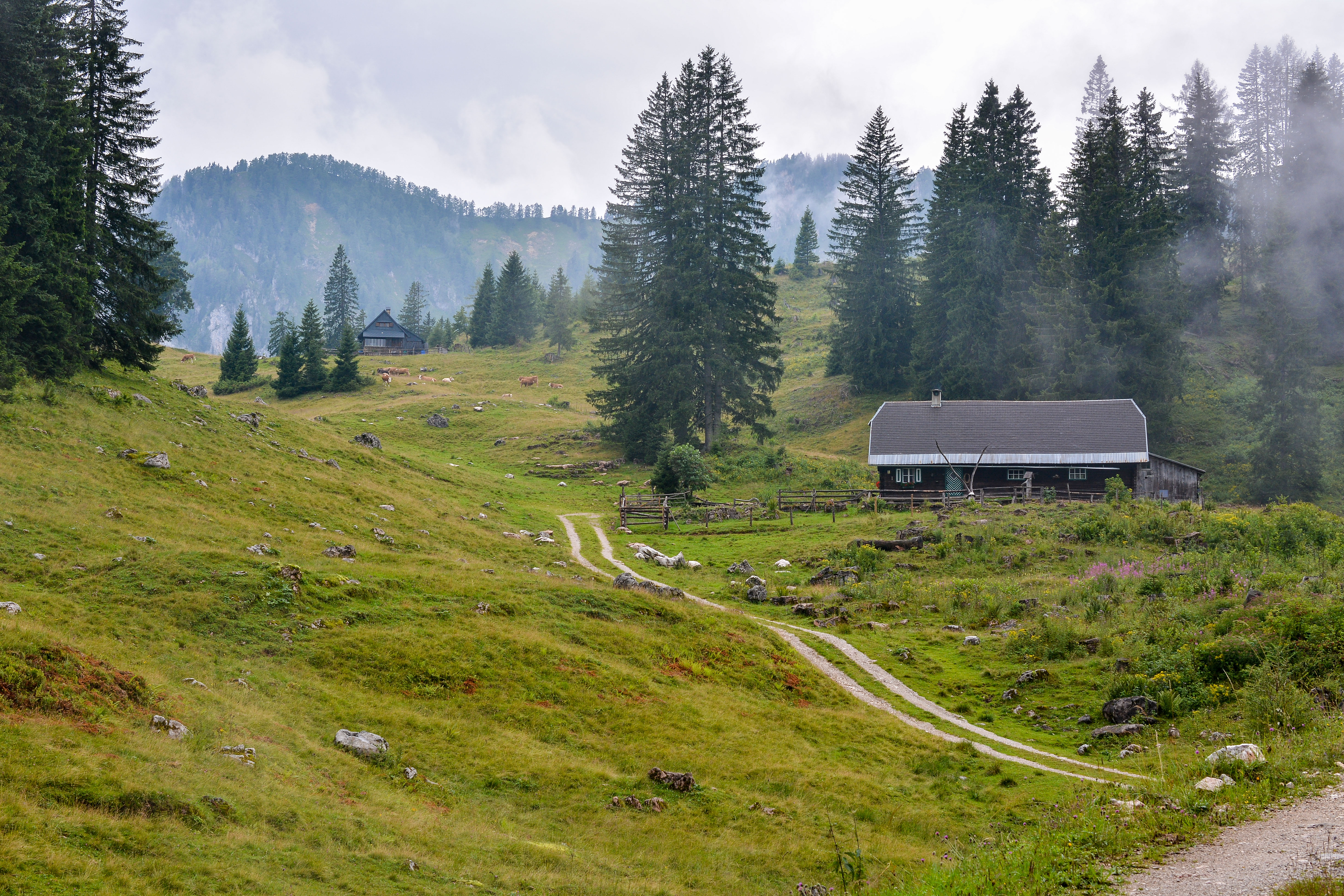 The mountail pasture Schmiedalm can be reached from the valley station of Wurzeralm funicular.